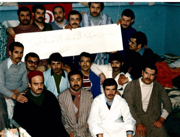 Early Ennahdha Movement members in Prison in early 80s